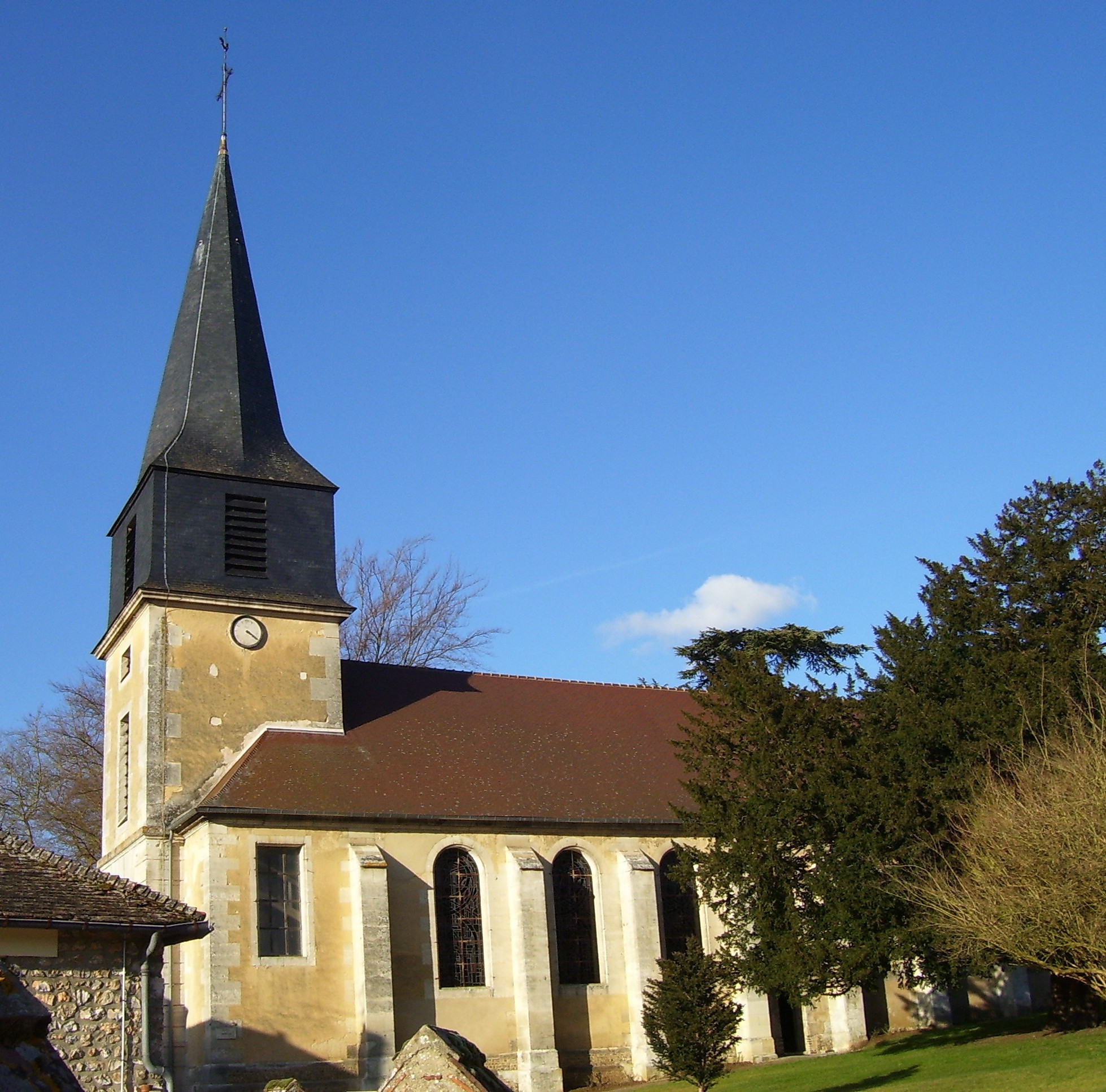 Church Saint-André (11th century) in Le Bec-Hellouin, departement Eure, region Haute-Normandie, France.